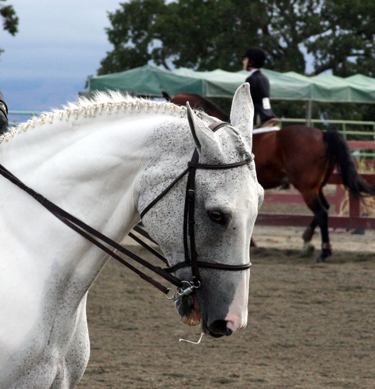 Fleabittengrey-tobiano